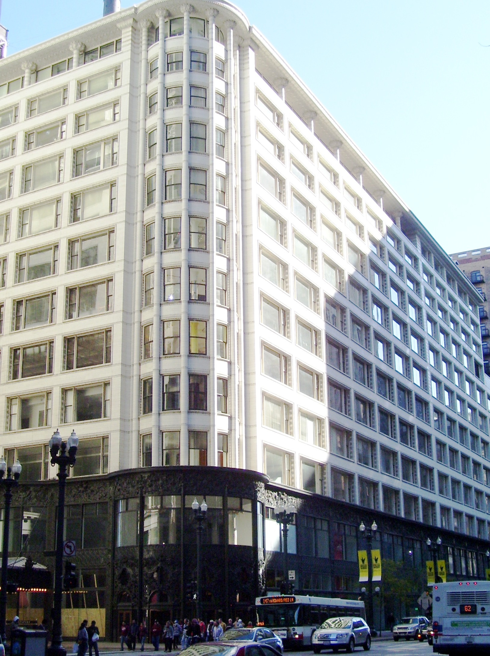 A view from the north of the Carson, Pirie, Scott and Company Building at 1 South State Street at East Madison Street in Chicago, Illinois, also known as the Sullivan Center.